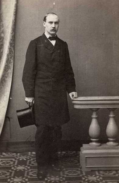 Johan Storm Aubert Hjort (1835-1905), Norwegian physician and professor of medicine. Photo by Klem (Oslo).